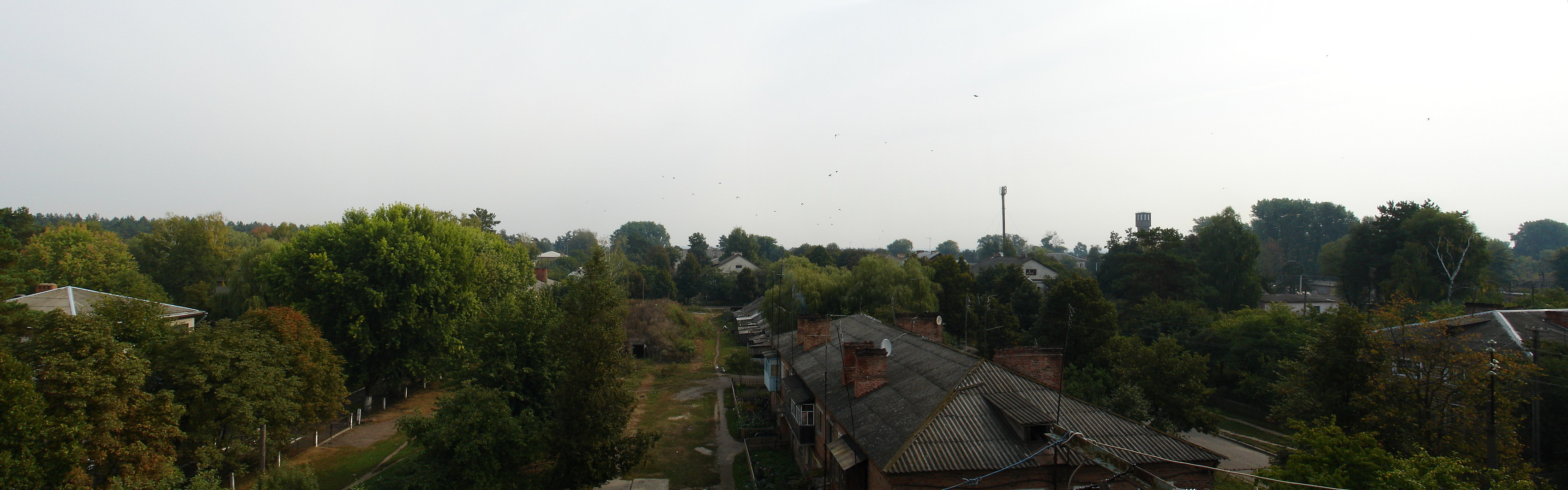 Panorama of Zamhlay, Chernihiv Oblast, Ukraine